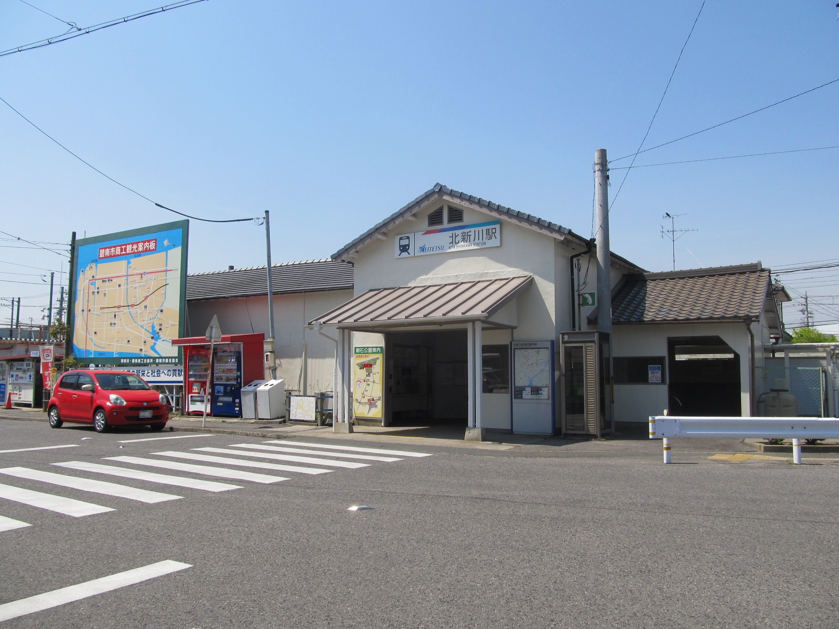 Nagoya Railroad Mikawa Line Kita Shinkawa Station Building